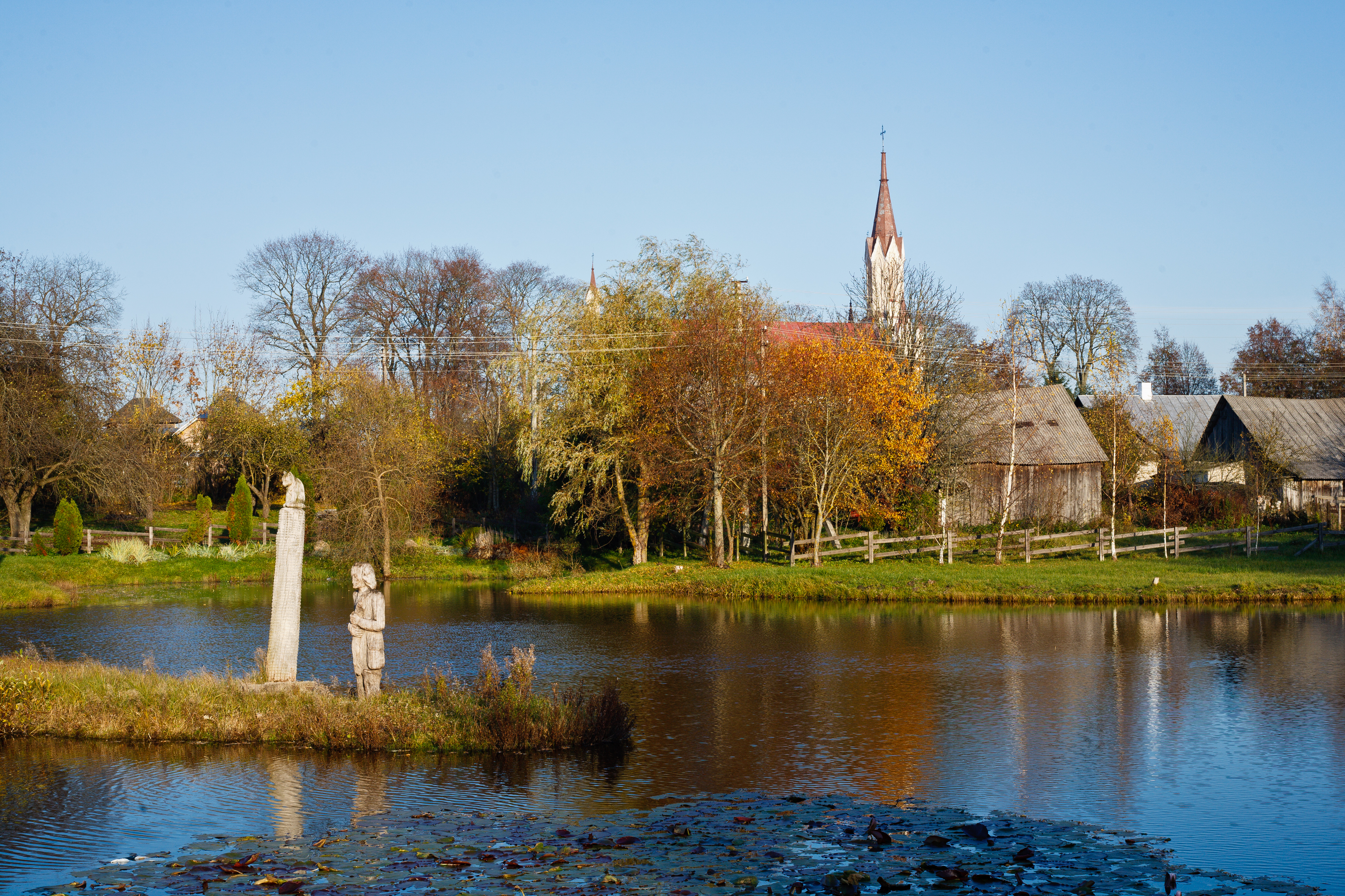 Musninkai center pond, Lithuania